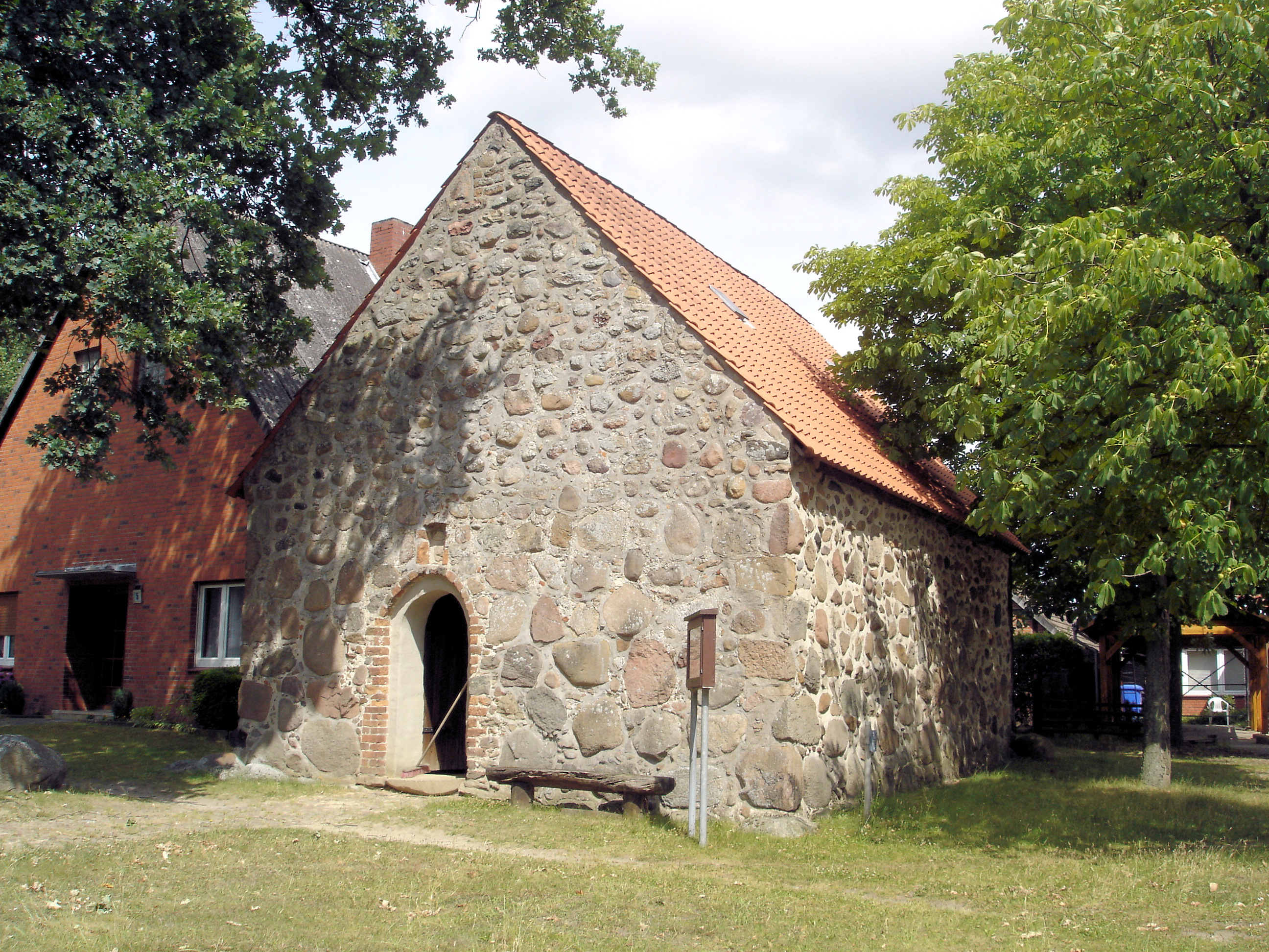 Church in Lübbow, Lower Saxony, Germany